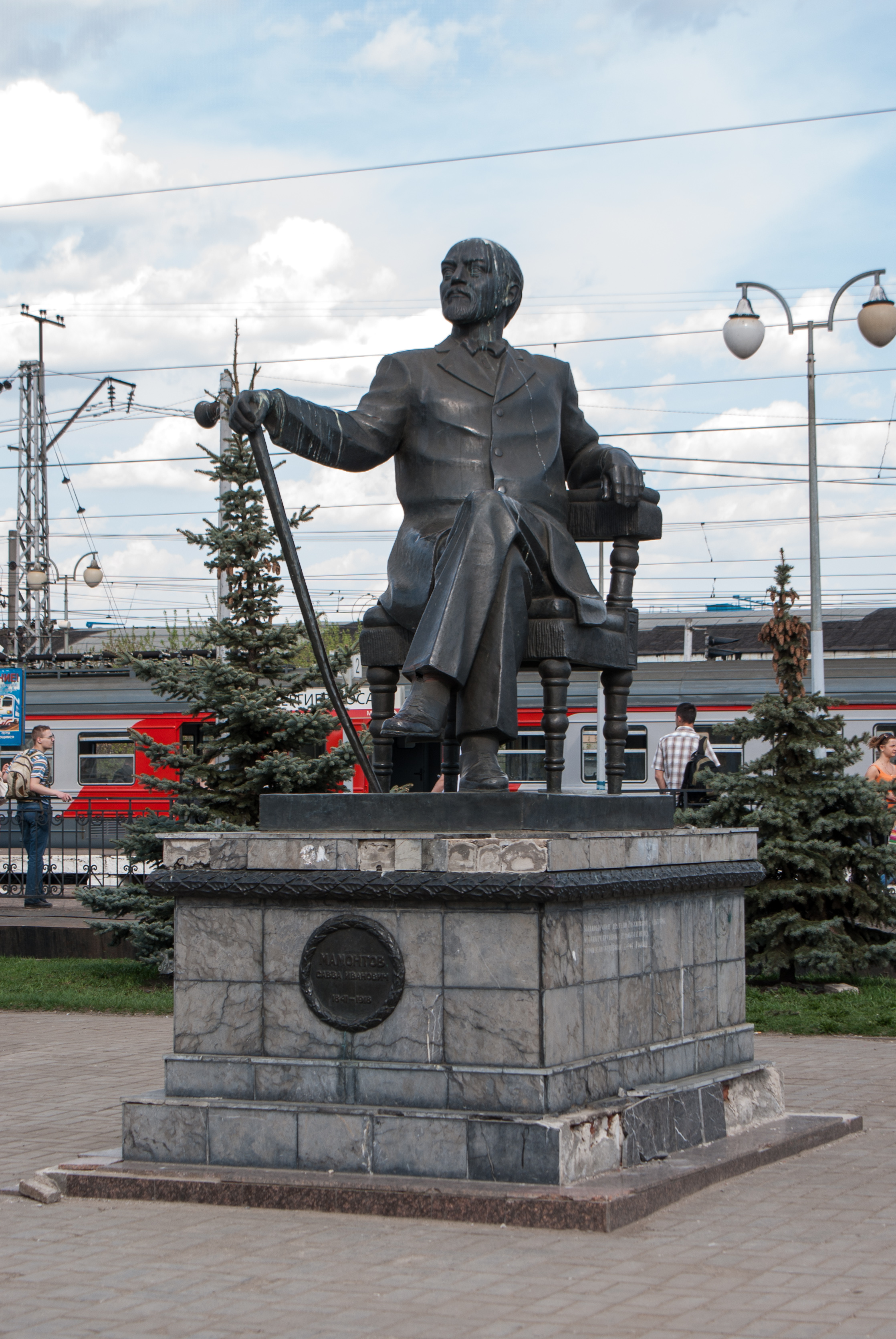 The monument of Savva Mamontov on the "Sergiev Posad" railway station.